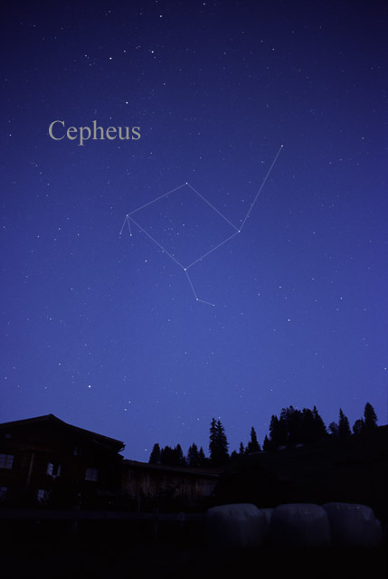 Photography of the constellation Cepheus